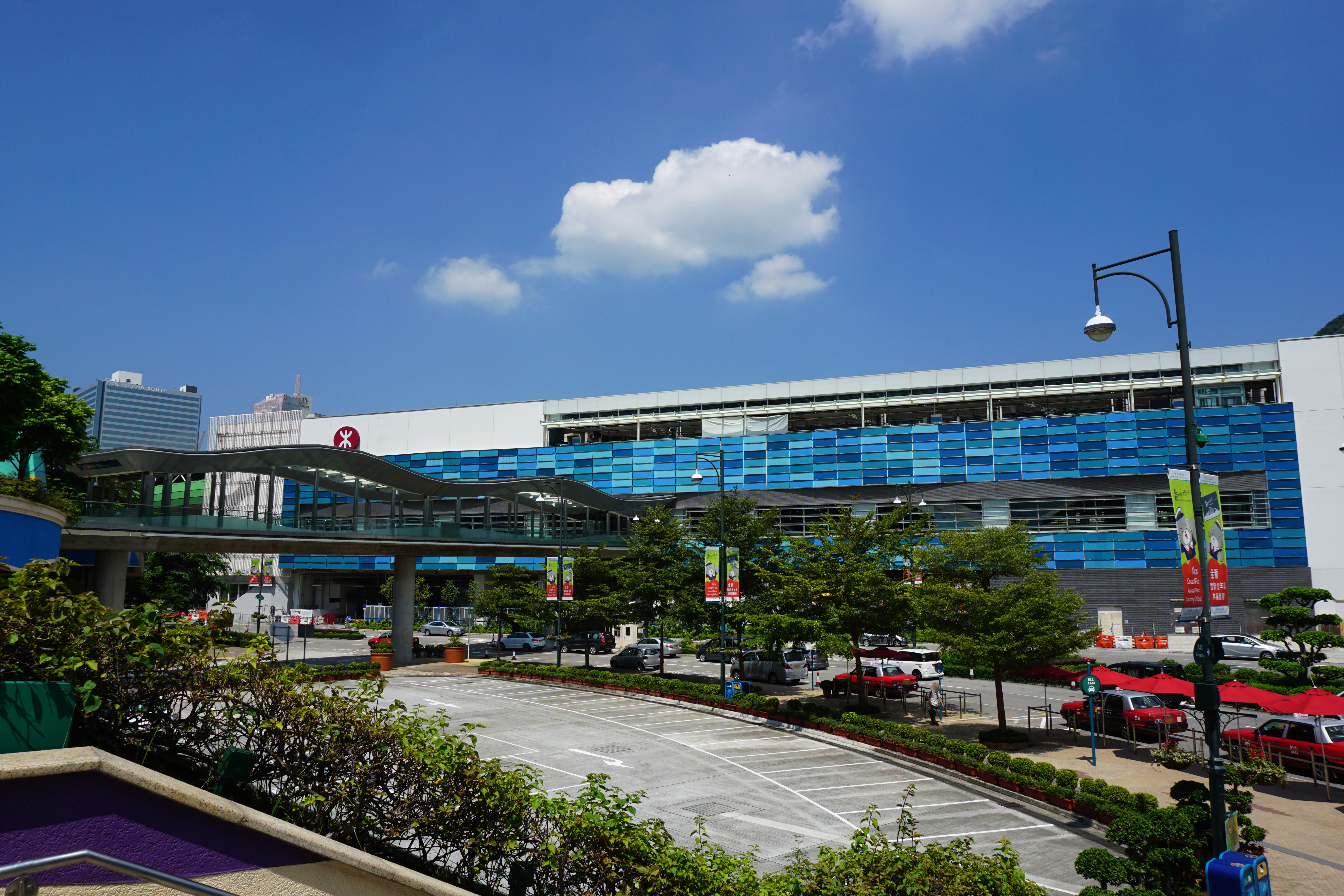 Ocean Park Station in Wong Chuk Hang, Hong Kong.